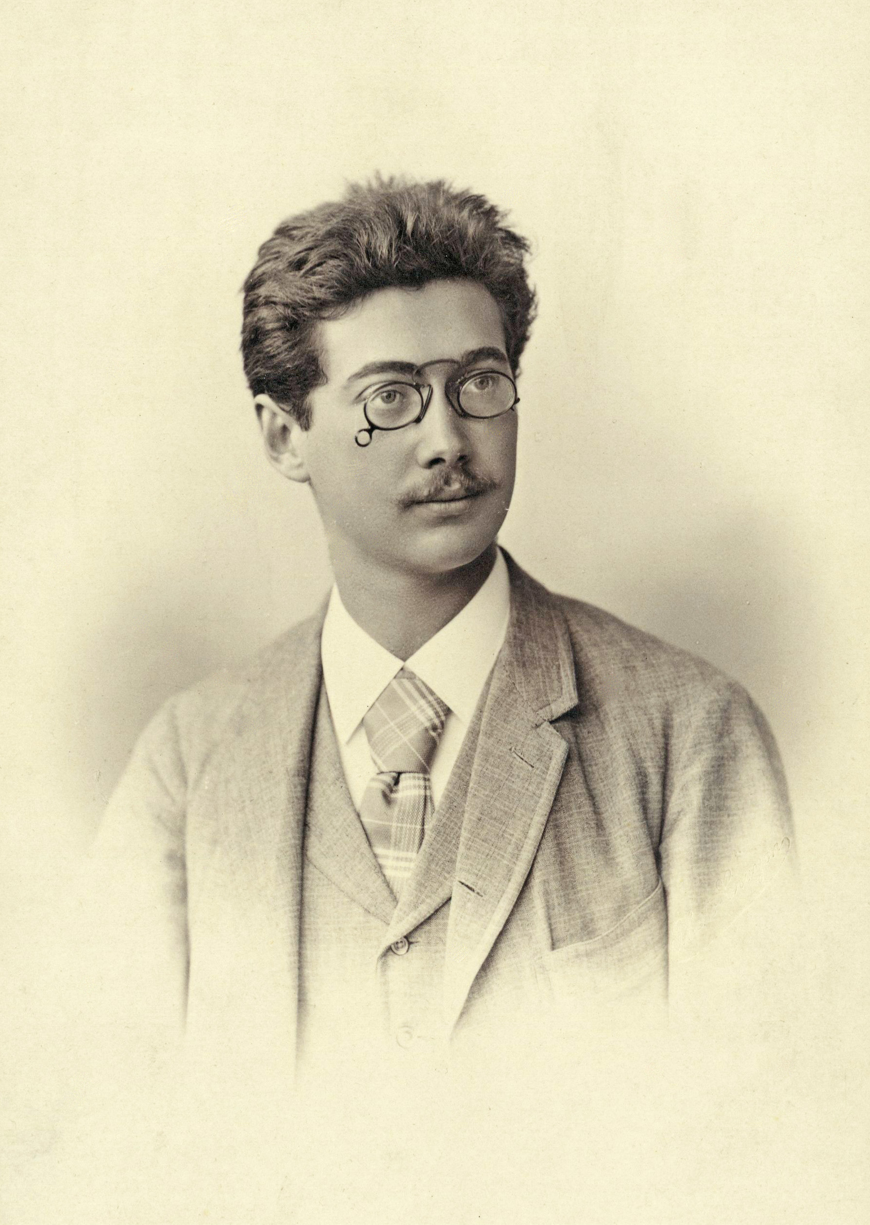 Picture of Gustav Landauer